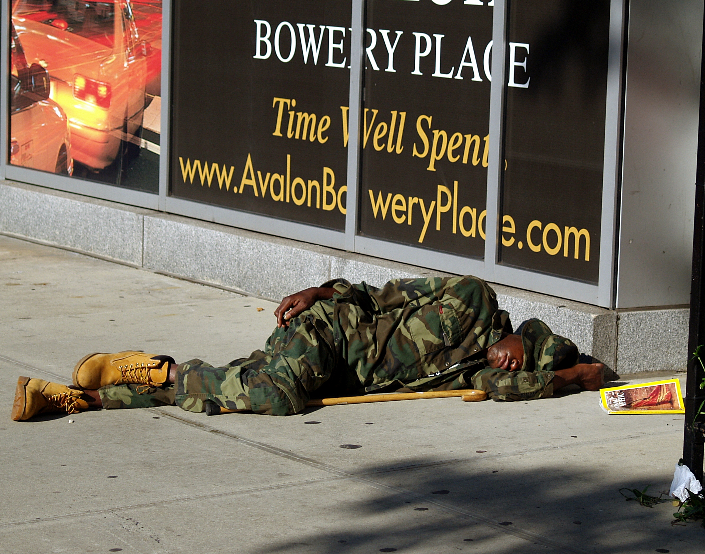 A man sleeping on the street of The Bowery in Manhattan. The sign is for luxury condos.